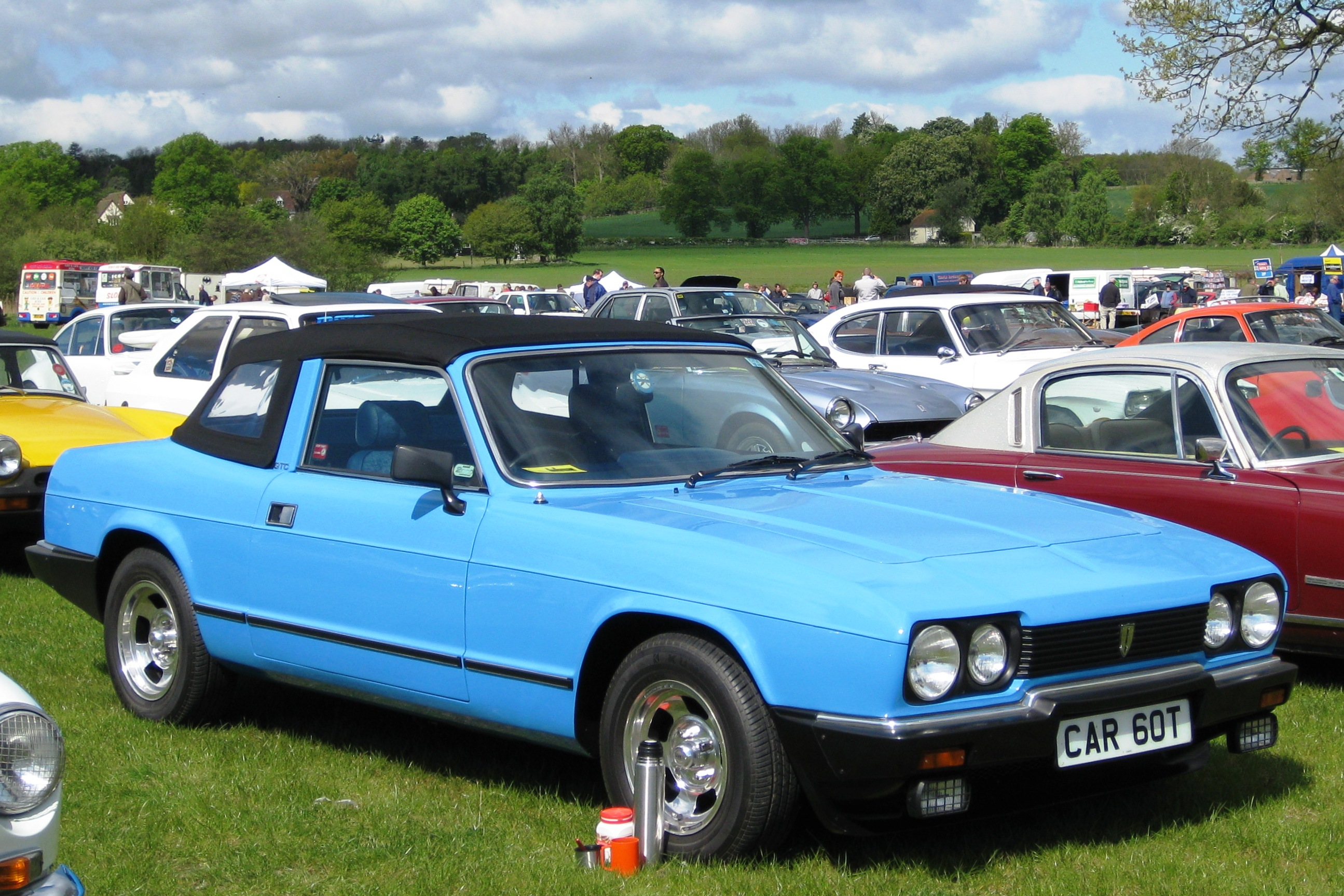 1981 Reliant Scimitar GTC (cabriolet) near Biggleswade